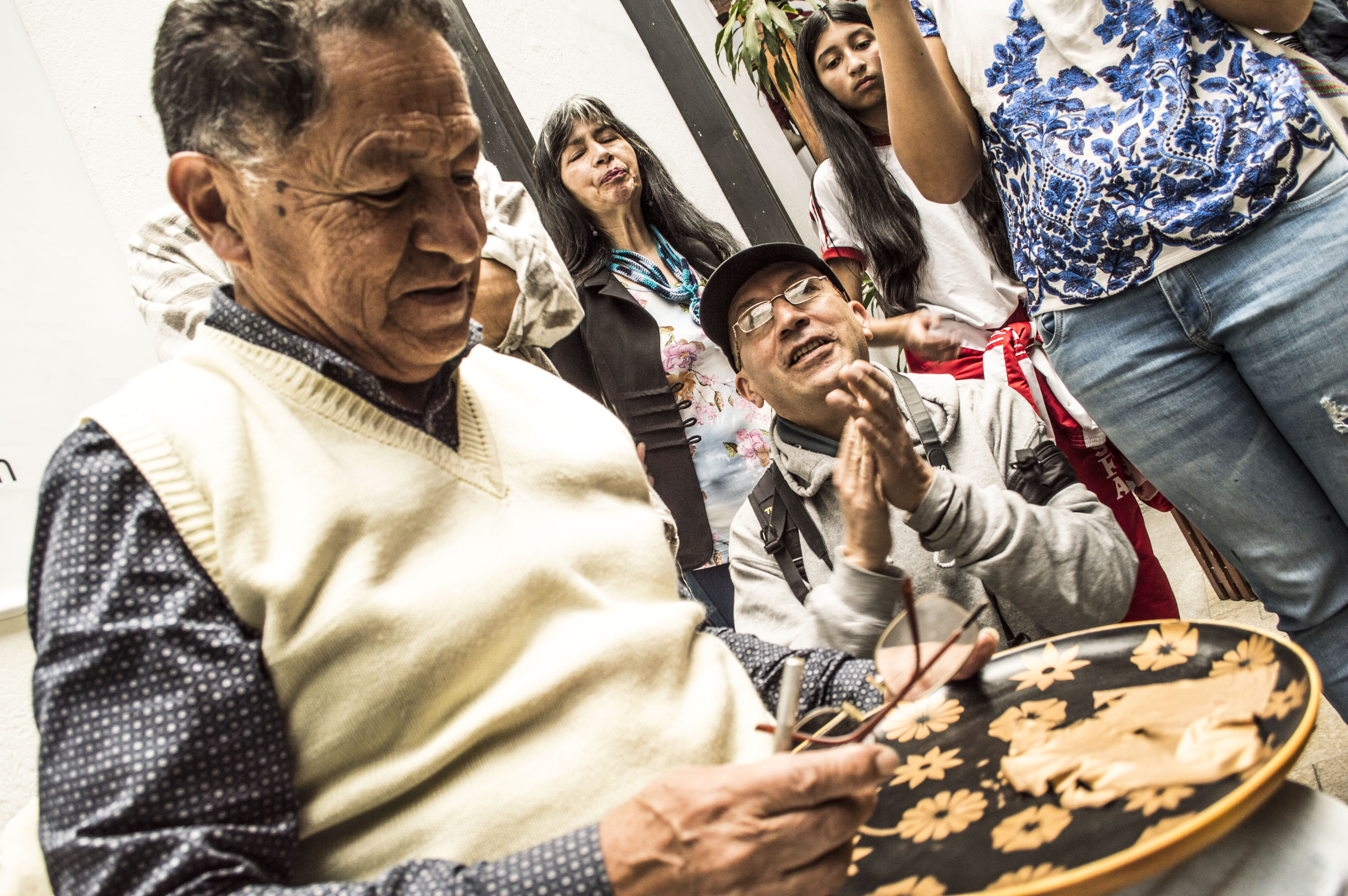 Barniz de Pasto